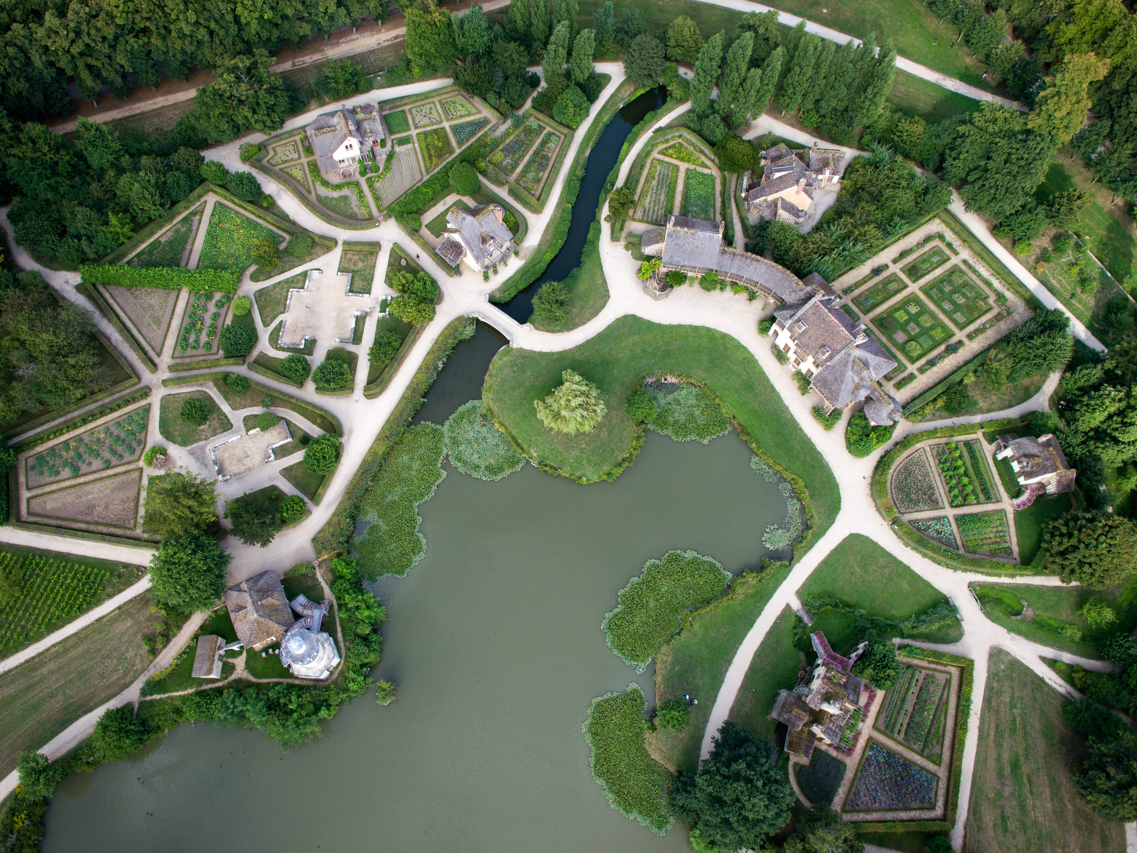 Aerial view of the hameau de la reine, Domain of Versailles, France